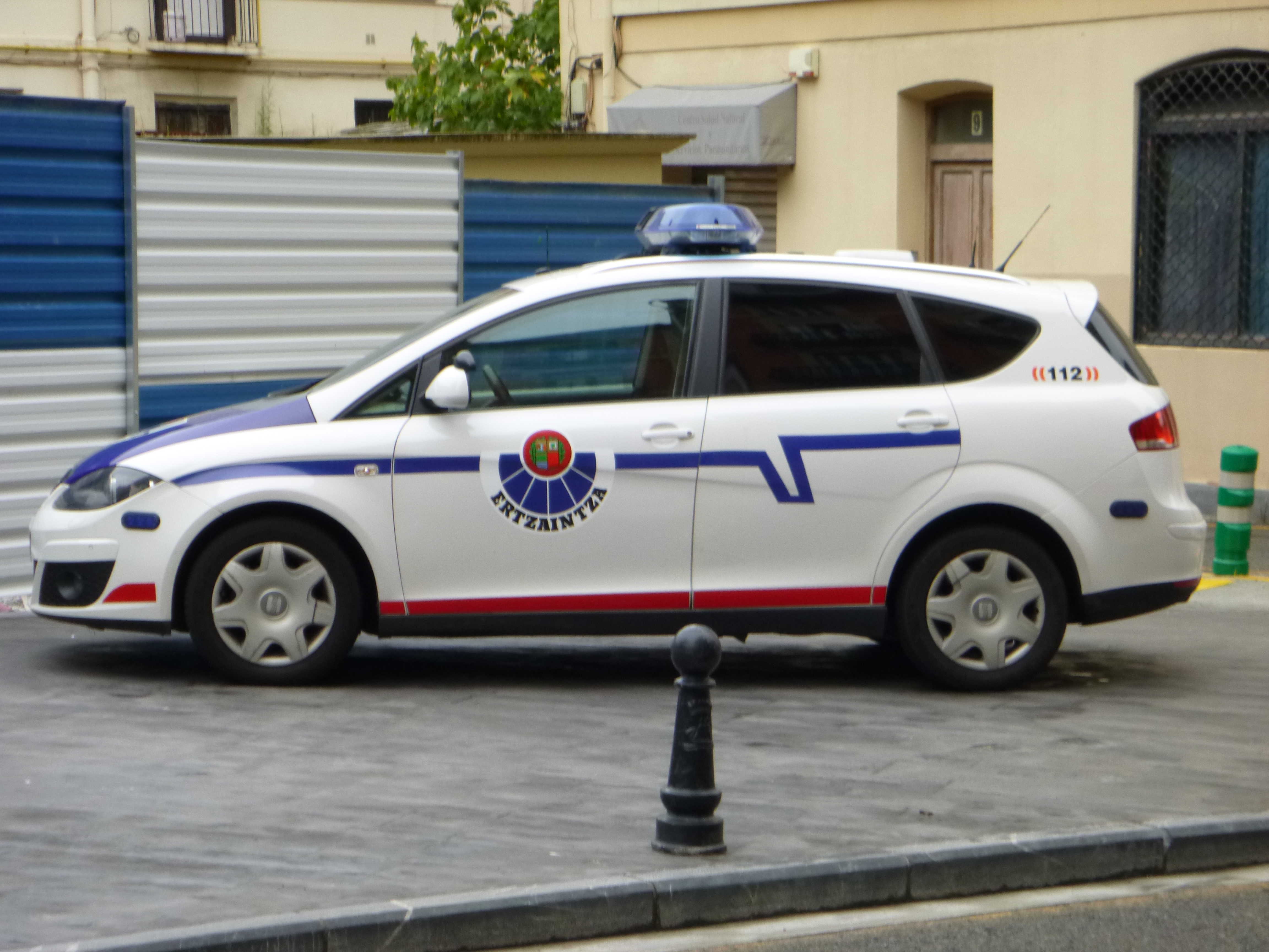 Ertzaintza car